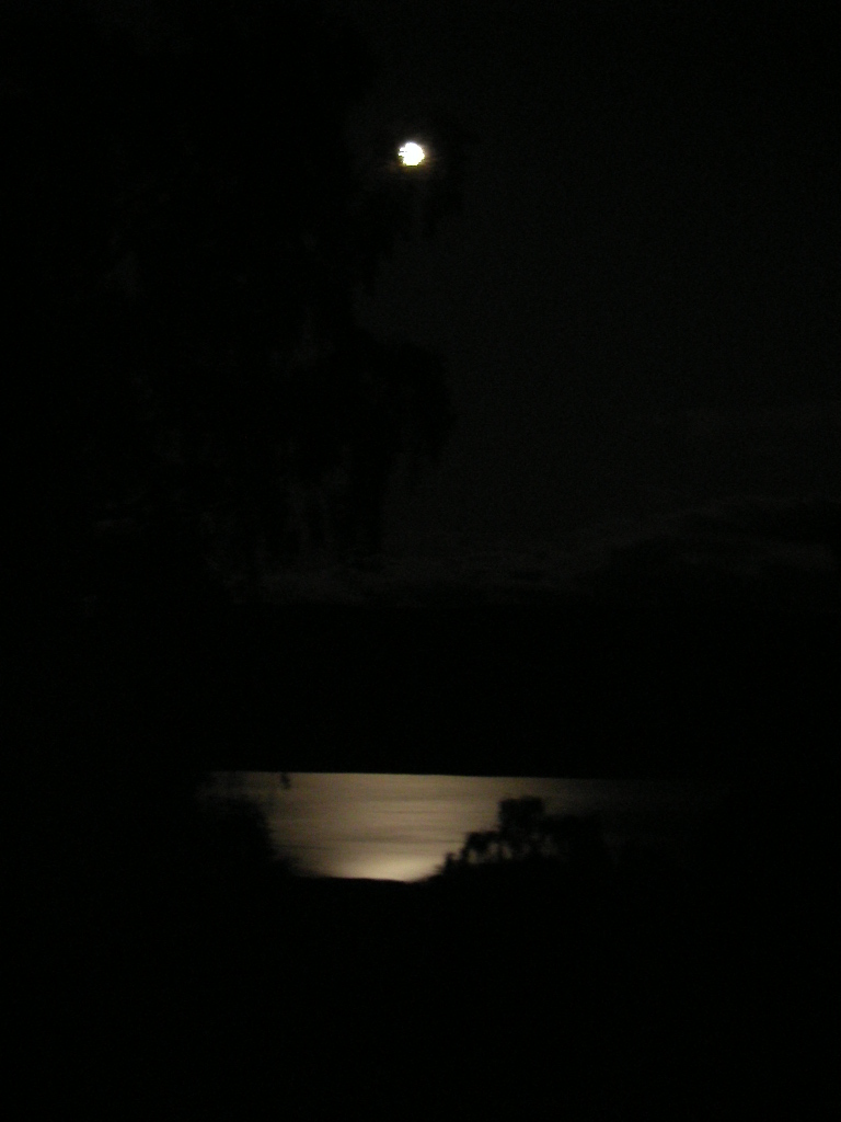 Loch Ness by night